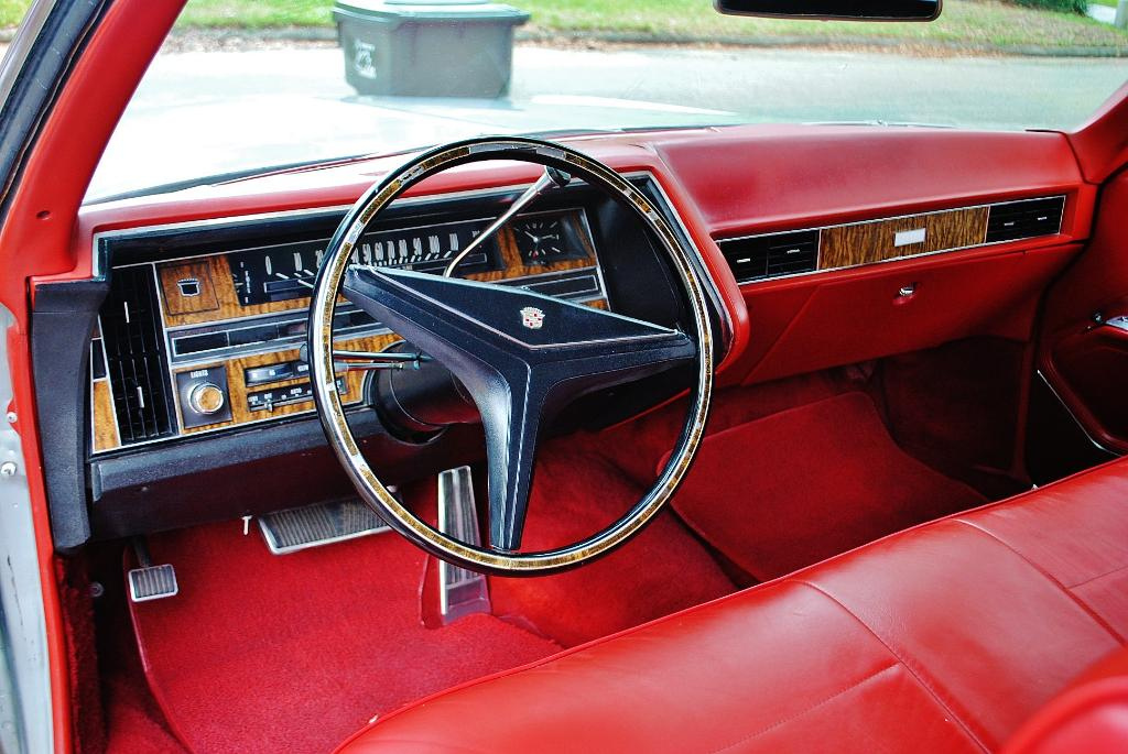 This is a picture of a vehicle (name of it is on the file name).